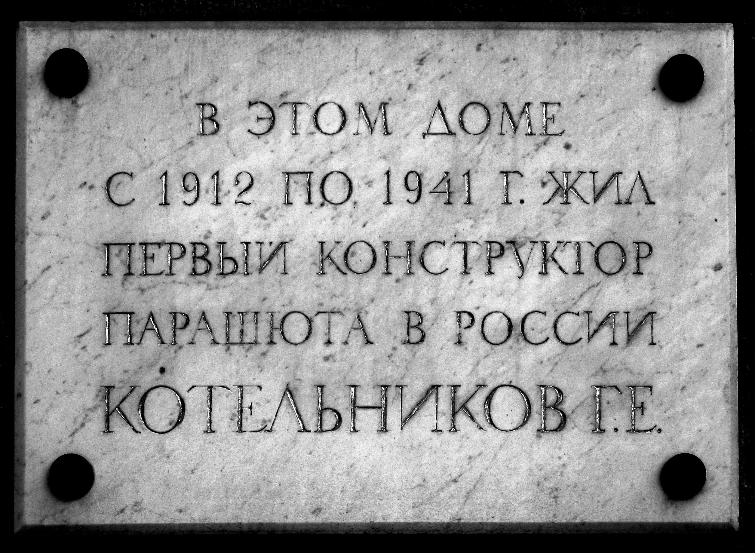 Marble plaques. 14 line, building 31, Vasilievsky Island, Saint-Petersburg, Russia. The title on the memorial plaque: "Gleb Kotelnikov lived in this building in 1912-1941".